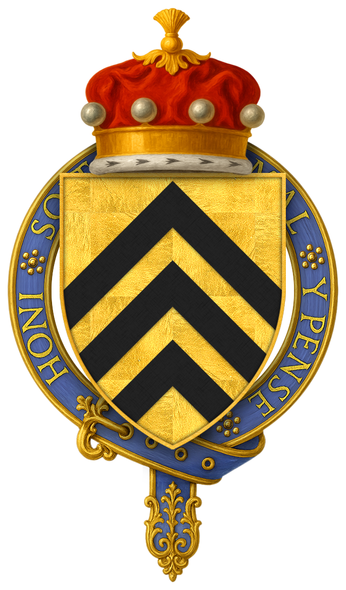 Coat of Arms of Sir Walter Manny, 1st Baron Manny, KG “Sir Walter Manny – Lord de Manny… Arms: Or three cheveronels Sable.” BELTZ, George Frederick, Memorials of the Order of the Garter from Its Foundation to the Present Time, London: William Pickering, 1841.